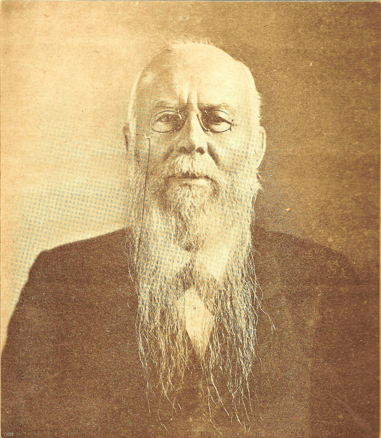 H.F. Jonkman